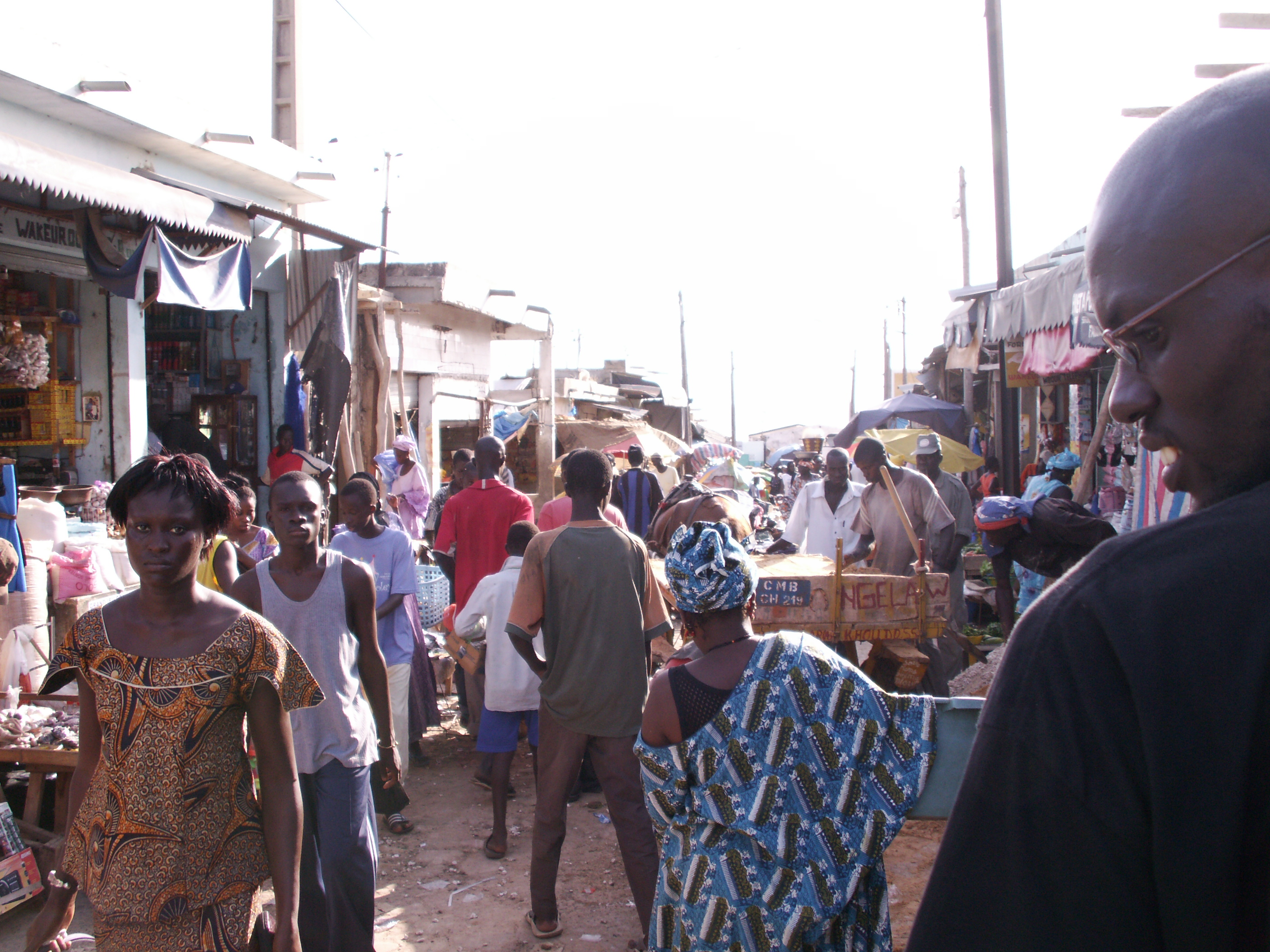 Streets in front of the harbour in M'Bour. Shops are plenty in these streets.